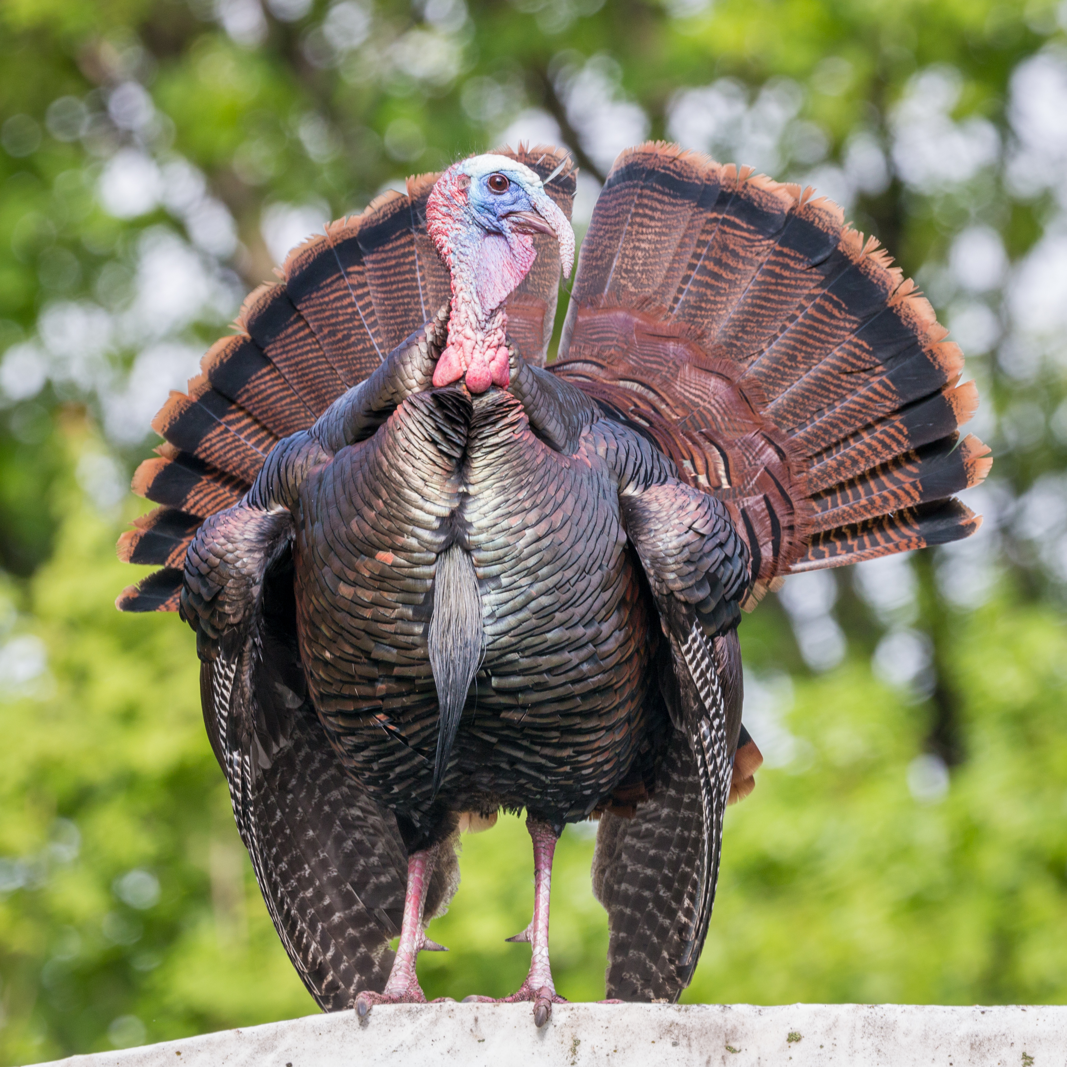 This picture is actually from May, but I've been saving it for today. Happy Thanksgiving!